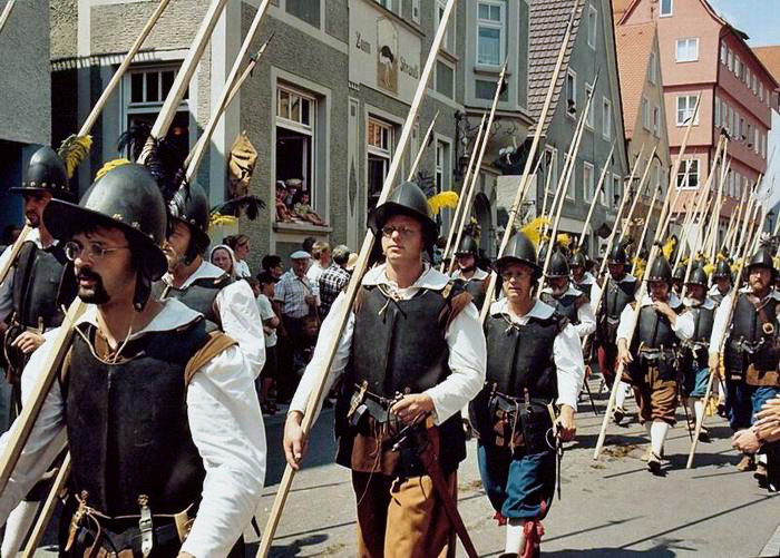 Picture shows pikemen at the Wallenstein-Festival 2004 in Memmingen, Germany.